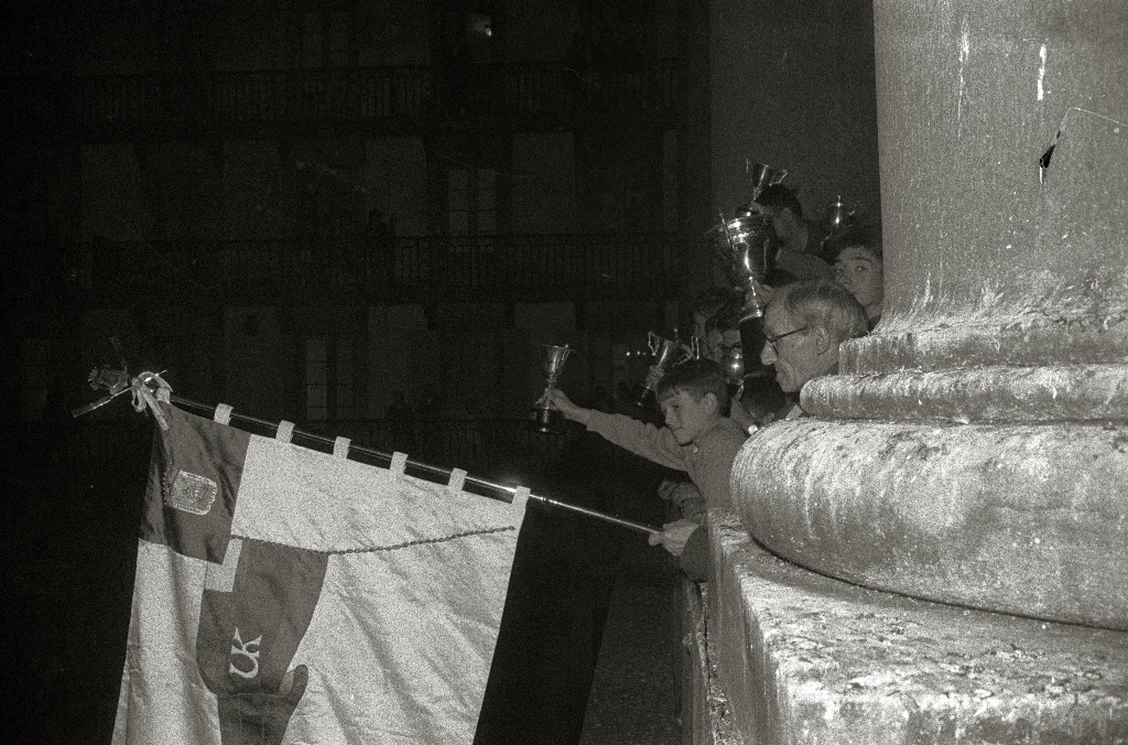 Espainiako Txapelketa irabazi zuen arraun mugikorreko taldearen harrera (1964)